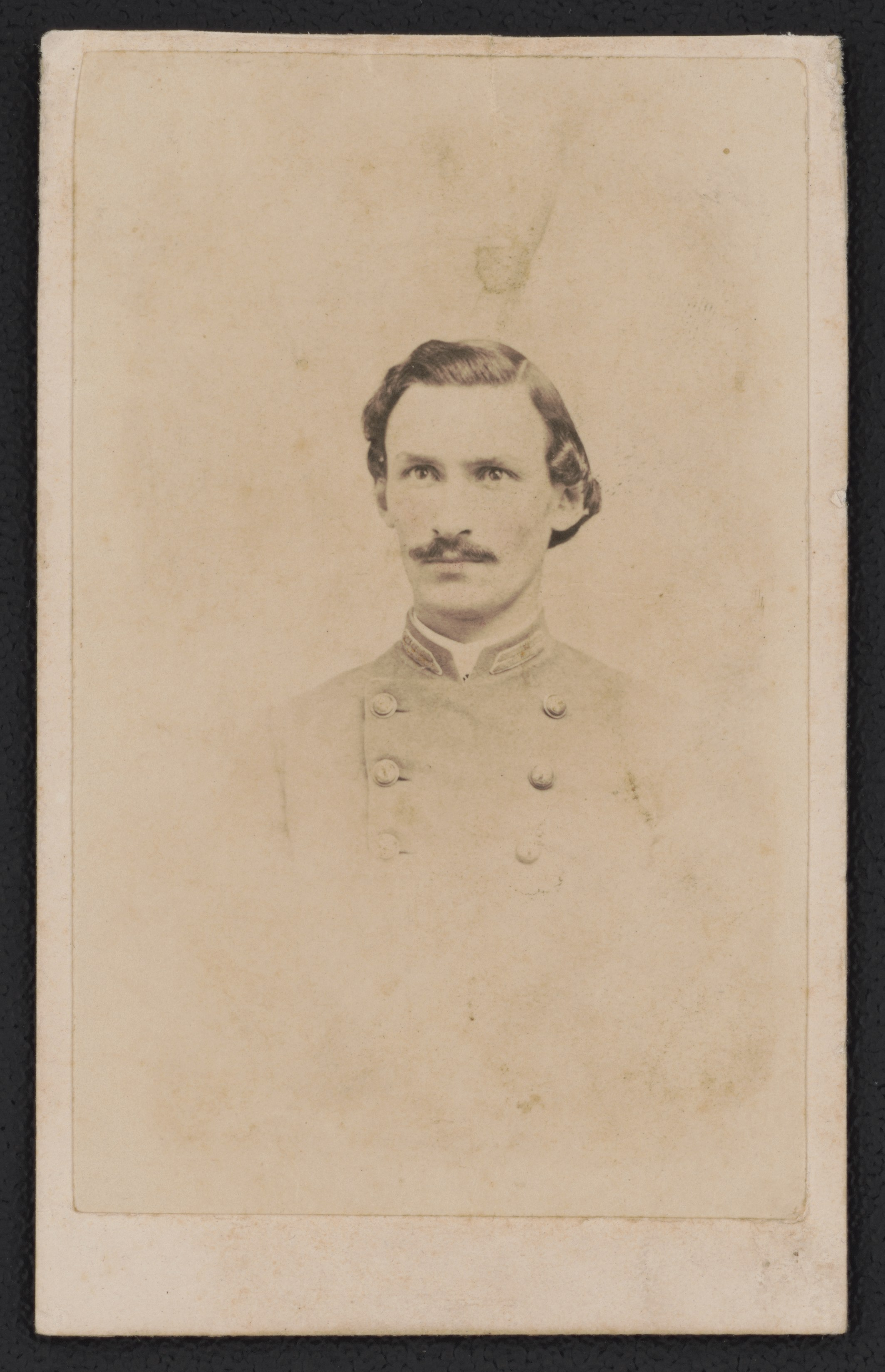 Title: Second Lieutenant Theodore S. Garnett of Co. F, 9th Virginia Cavalry, in uniform Abstract/medium: 1 photograph : albumen print on card mount ; mount 10 x 7 cm (carte de visite format)